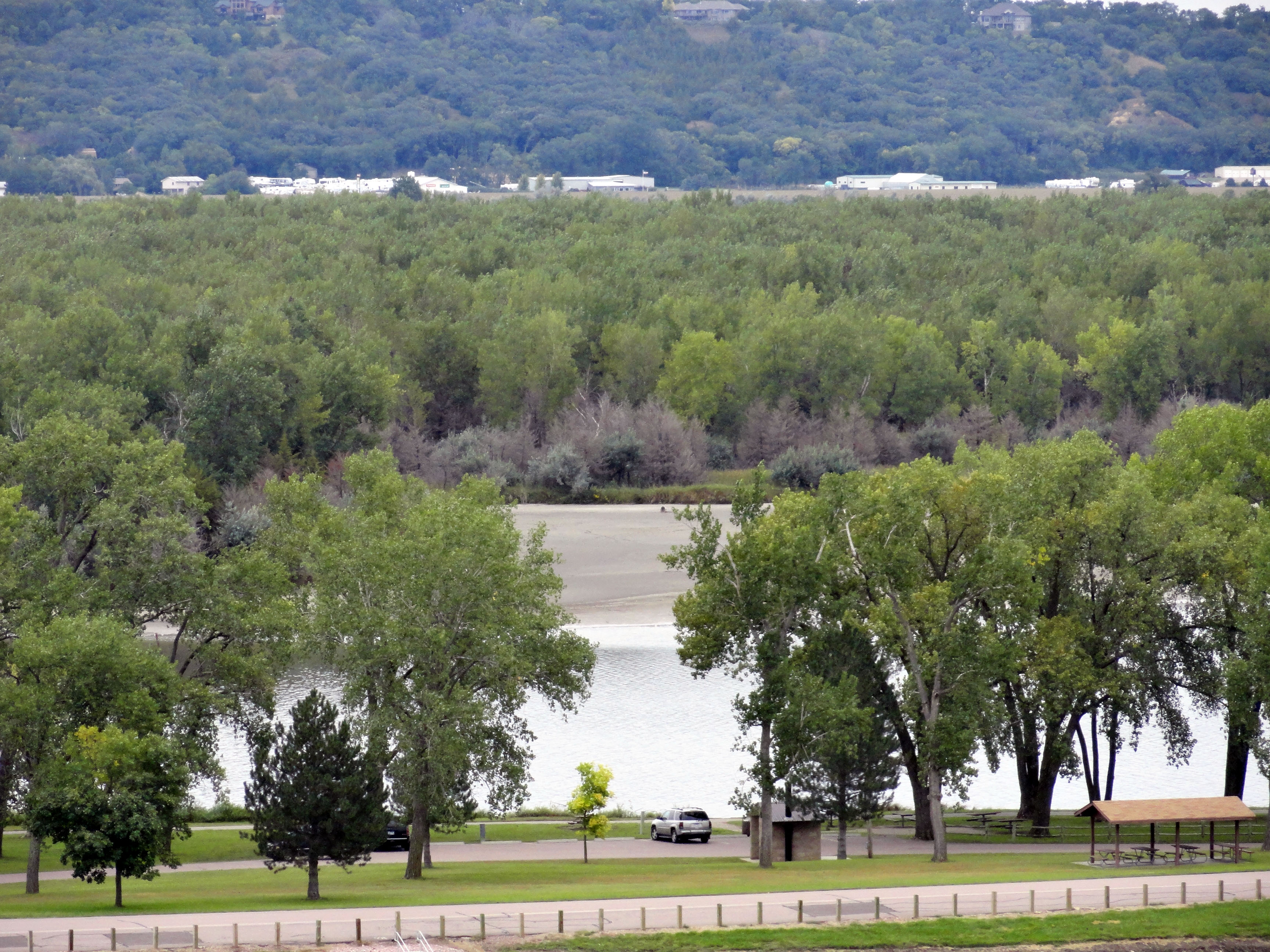 View of Lake Yankton and Training Dike Recreation Area from the Lewis and Clark visitor center near Crofton, Nebraska.